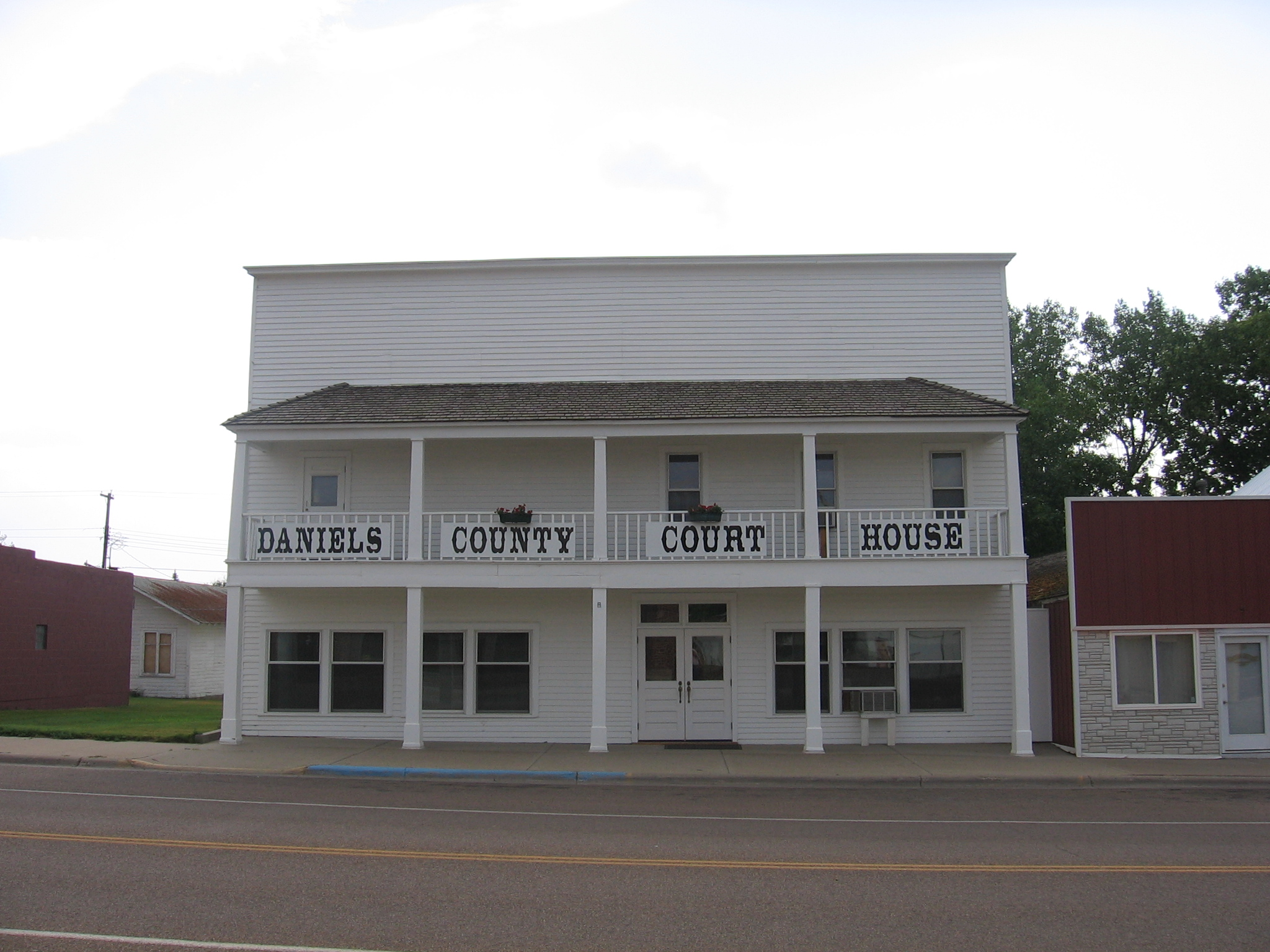 Front of the Daniels County Courthouse, located at 213 Main Street in Scobey, Montana, United States. Built in 1913 as a hotel, the courthouse is listed on the National Register of Historic Places.